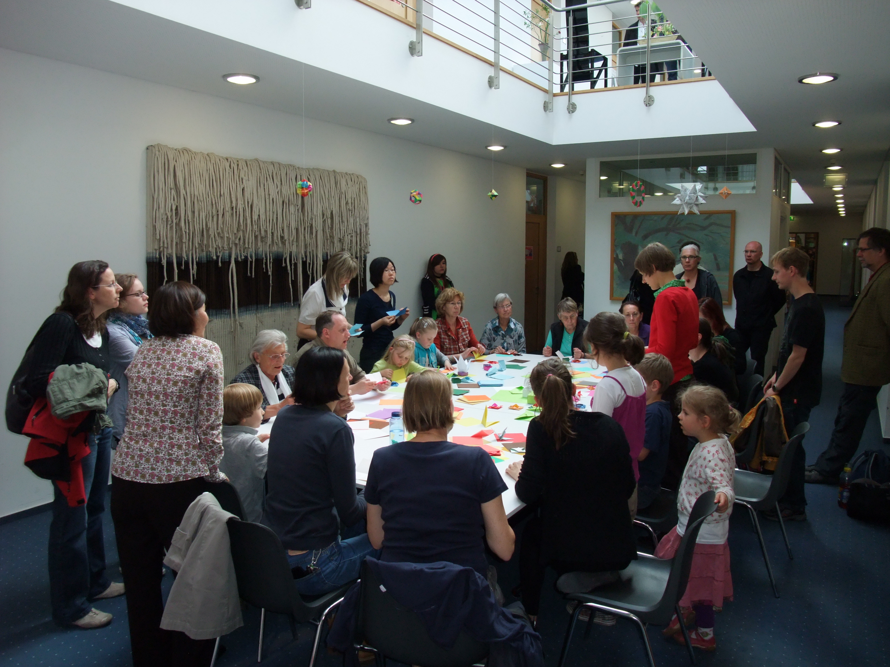 Japanese German Center Berlin, Germany. Origami class at the Open Day 2010